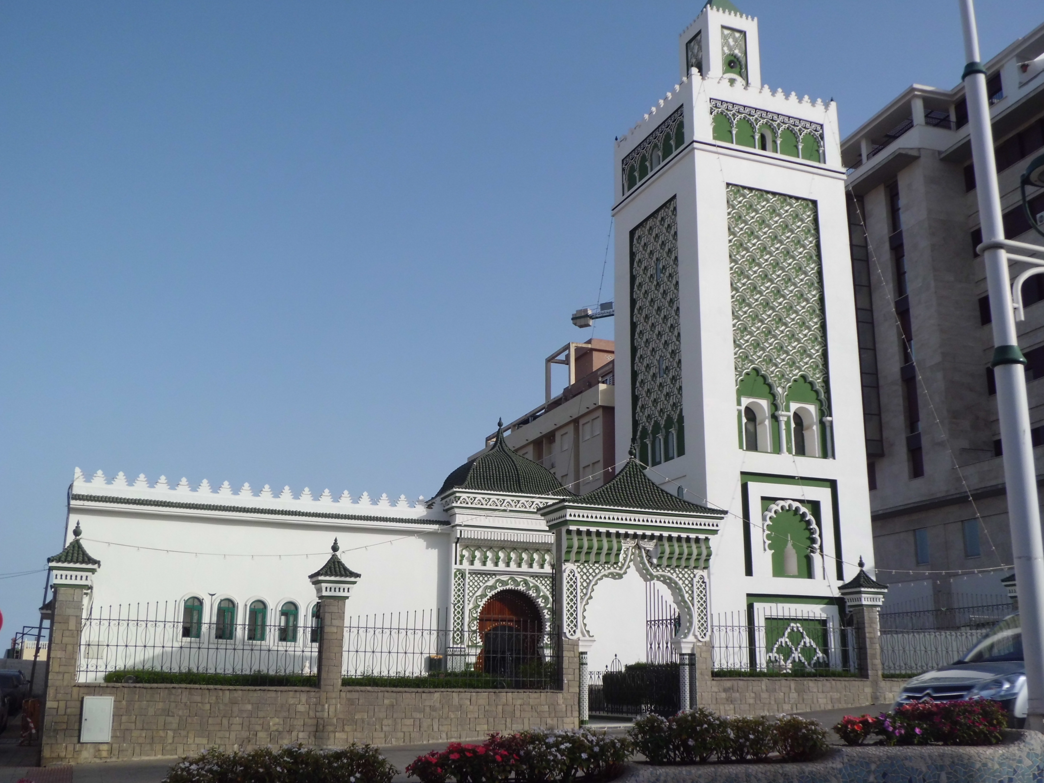 Mosque "Muley El Mehdi", Ceuta, Spain